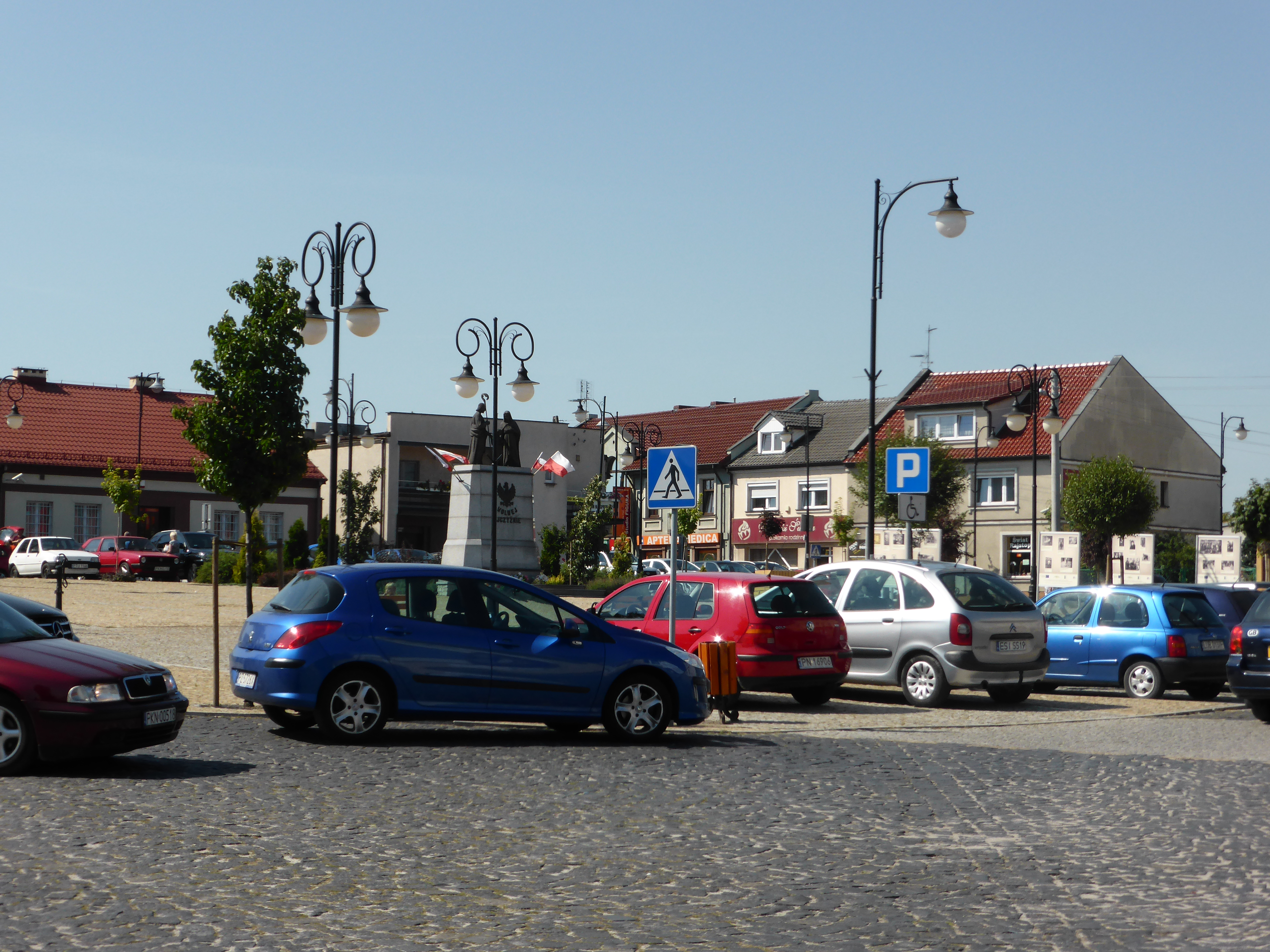 Old market square in Ślesin (Poland)